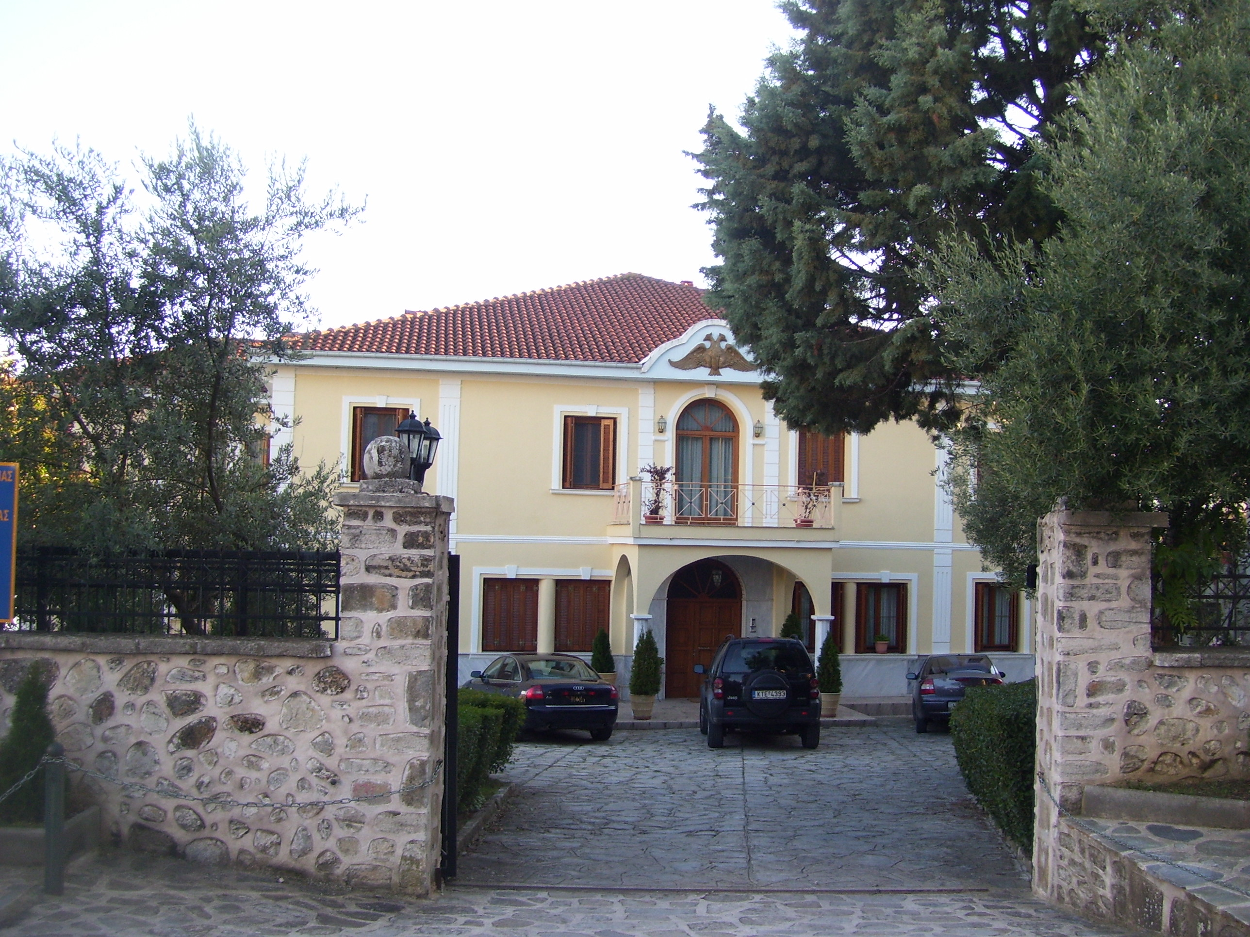 Metropolis of Kastoria, Greece.